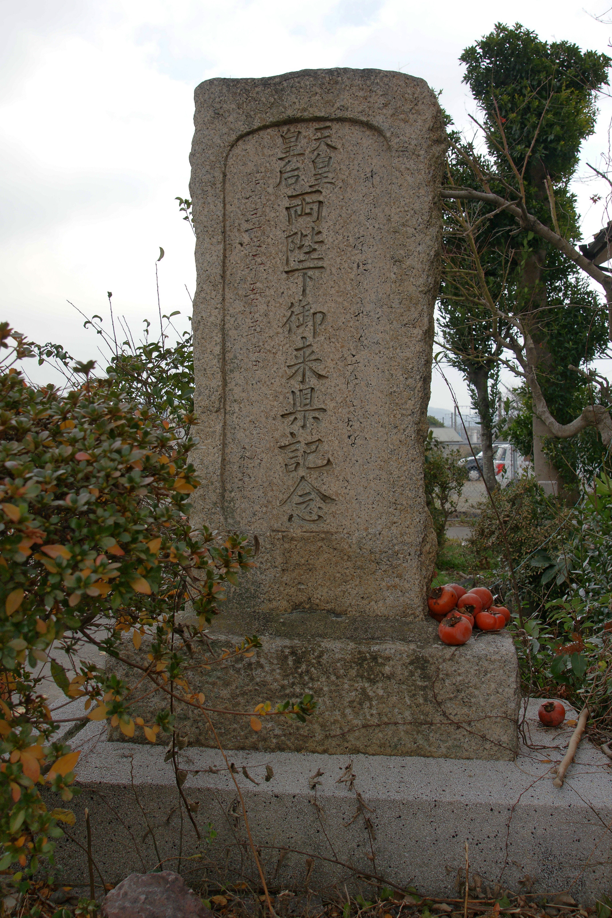 Dojoji Station, Gobo, Wakayama prefecture, Japan